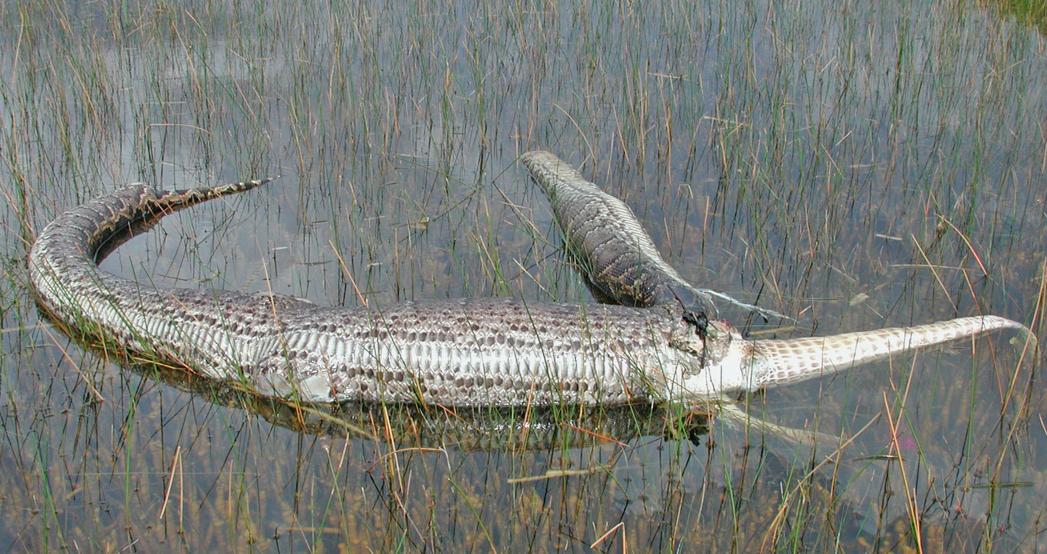 Dead Python who ate Gator